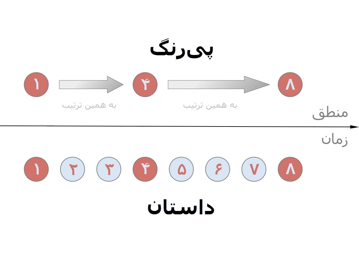 The difference between plot and story. Plot is cause and effect.